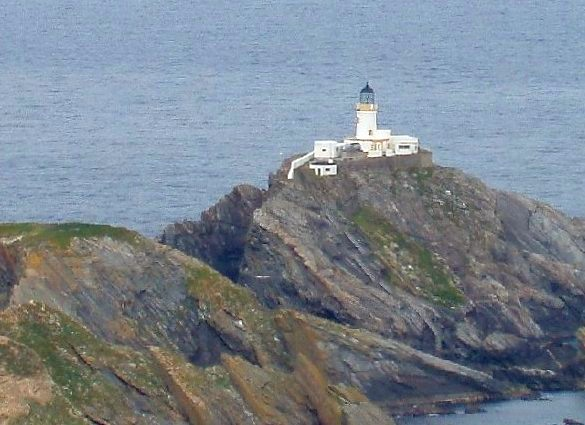 The lighthouse on Muckle Fluggs.